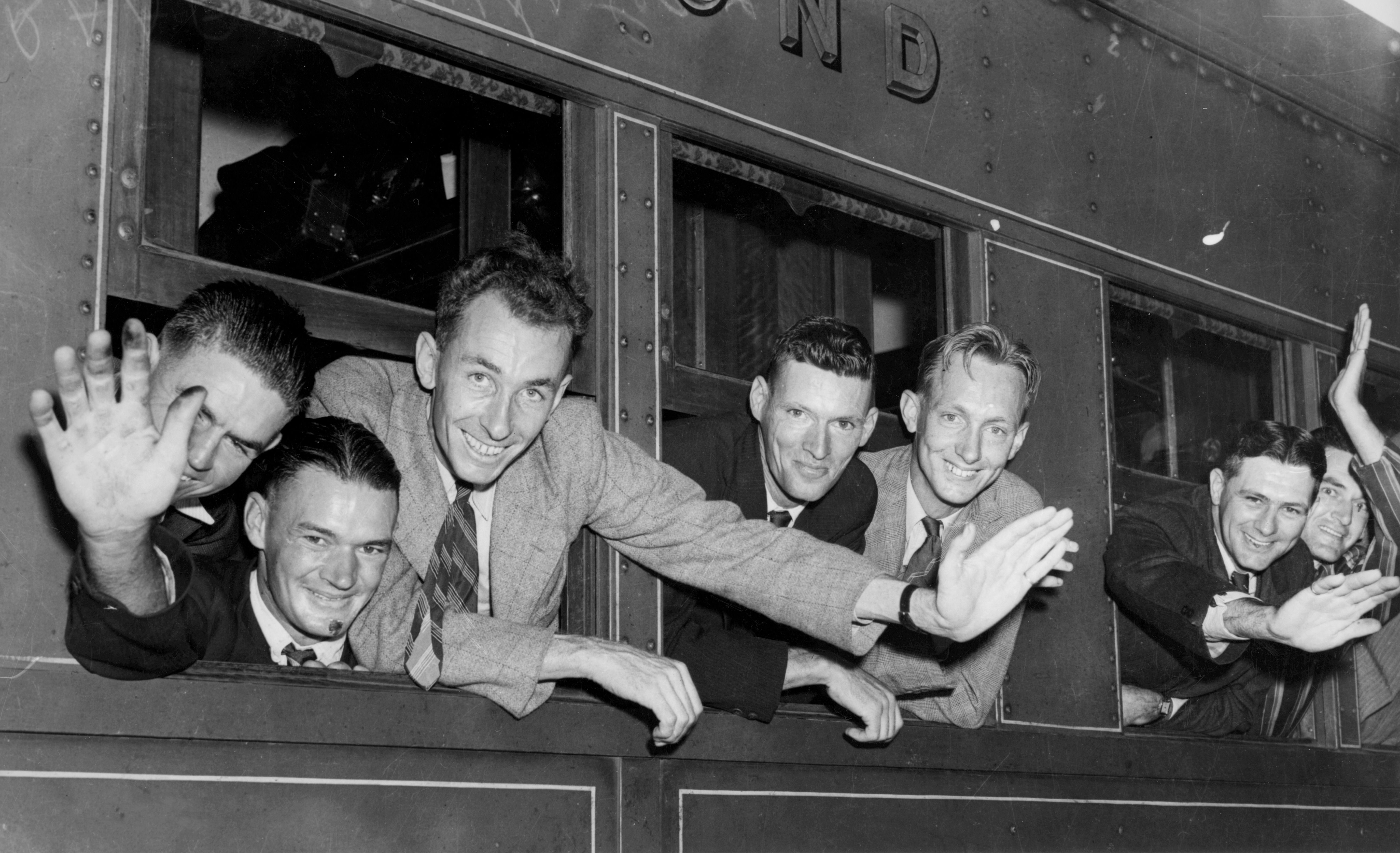 RAAF recruits leaving from Brisbane, 1940. 'Recruits for the RAAF (Royal Australian Air Force) waving farewell to friends when they left Brisbane yesterday for the South to begin their training. Eighty volunteers were included in the draft' (Information taken from Courier-mail, 3 April, 1940). The young men are framed in the window of a train carriage.